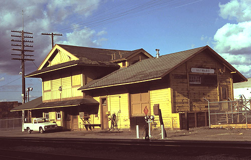 The then-abandoned Hayward station in January 1975